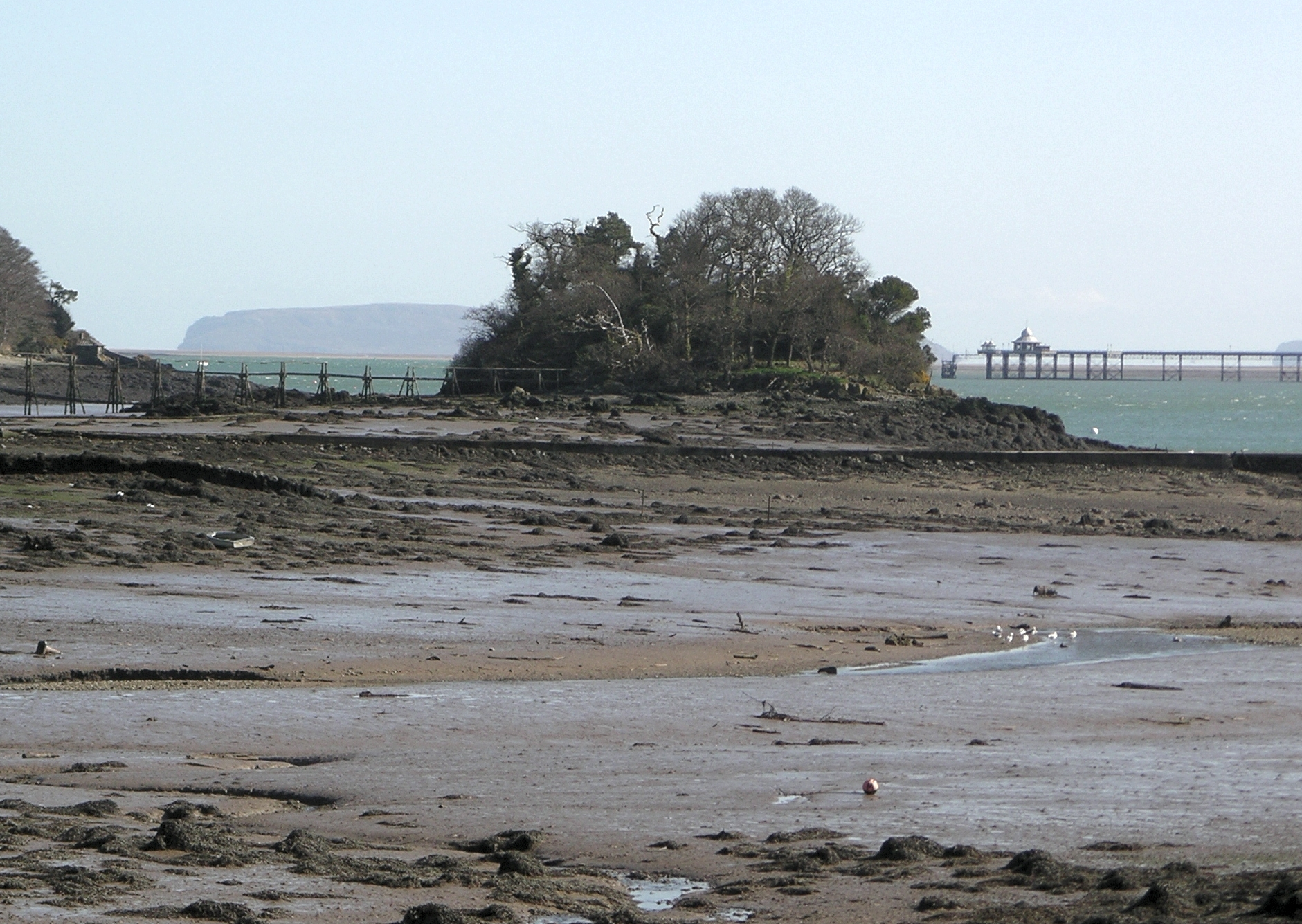 Ynys y Big, island in the Menai Strait. In the 1960's Ynys-Y-big, the house attached and named after this tiny island was owned by Audrey Boswell.